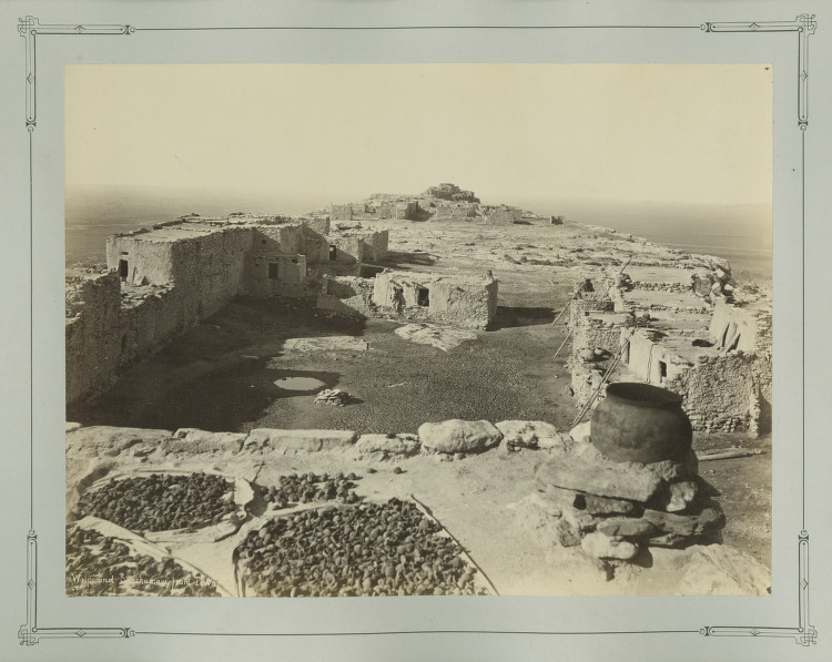 Title: Walpi, Arizona. Original caption: Wolpi and Shechumavi, from Tewa. Notes: View on First Mesa — Hopi's pueblos of Shechumavi (foreground) and Walpi (backround), seen from Tewa's pueblo of Tewa. Creator: John K. Hillers (1843-1925). Date: ca. 1873-1881 Part of: John K. Hillers photographs of Indian pueblos Physical Description 1 photographic print: albumen; 25.4 x 33 cm. on 40.6 x 50.8 cm. mount Form/Genre: Photographs; Photographic prints; Albumen prints; Landscape photographs File: ag1982_0236x_06_wolpi_tewa_opt.tif Rights Please cite Southern Methodist University, Central University Libraries, DeGolyer Library when using this image file. A high-quality version of this file may be obtained for a fee by contacting . For more information, see: View U.S. West: Photographs, Manuscripts, and Imprints at